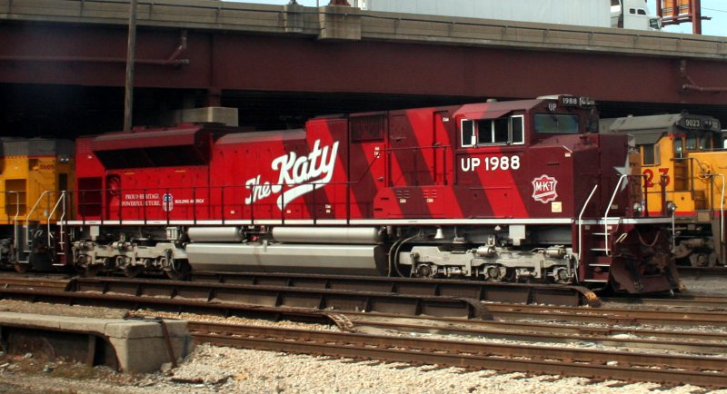 Union Pacific Railroad locomotive 1988, painted in the Missouri-Kansas-Texas Railroad heritage livery. This photograph was taken from aboard the inbound Lake Shore Limited train as it passed the engine servicing facility south of Chicago's Union Station.